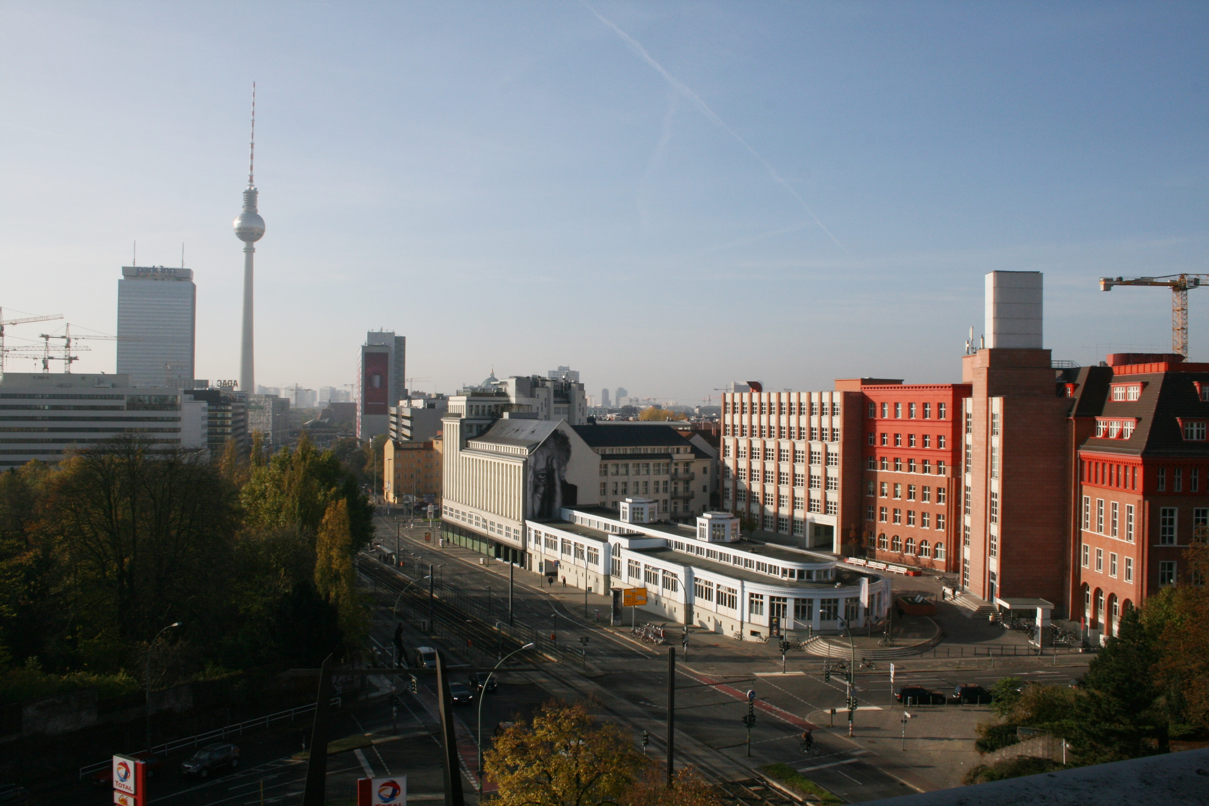 South of the Prenzlauer Allee in Berlin with the "Backfabrik"